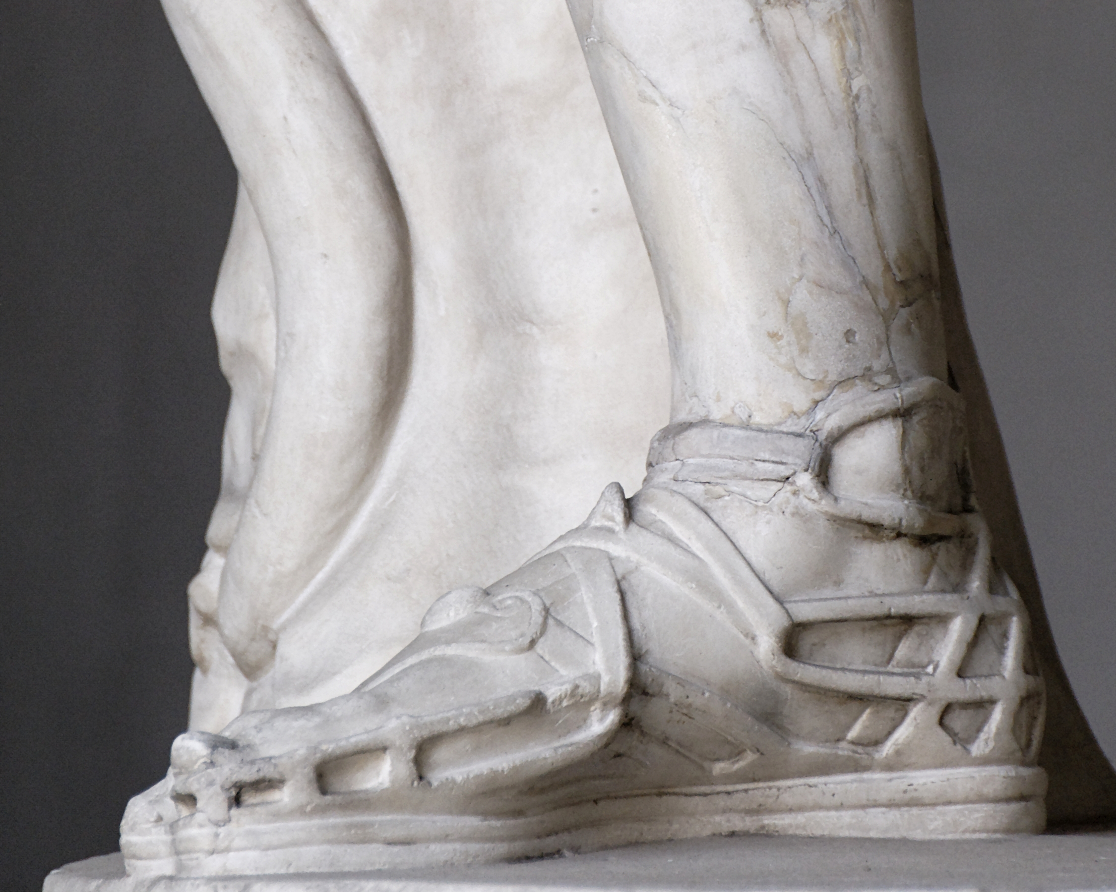 Roman copy after a Greek bronze original of 330–320 BC. attributed to Leochares. Found in the late 15th century. Belvedere Apollo, detail: the right-foot sandal